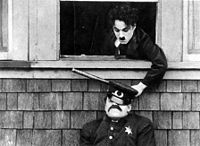 Scene from the Chaplin film Police (1916).